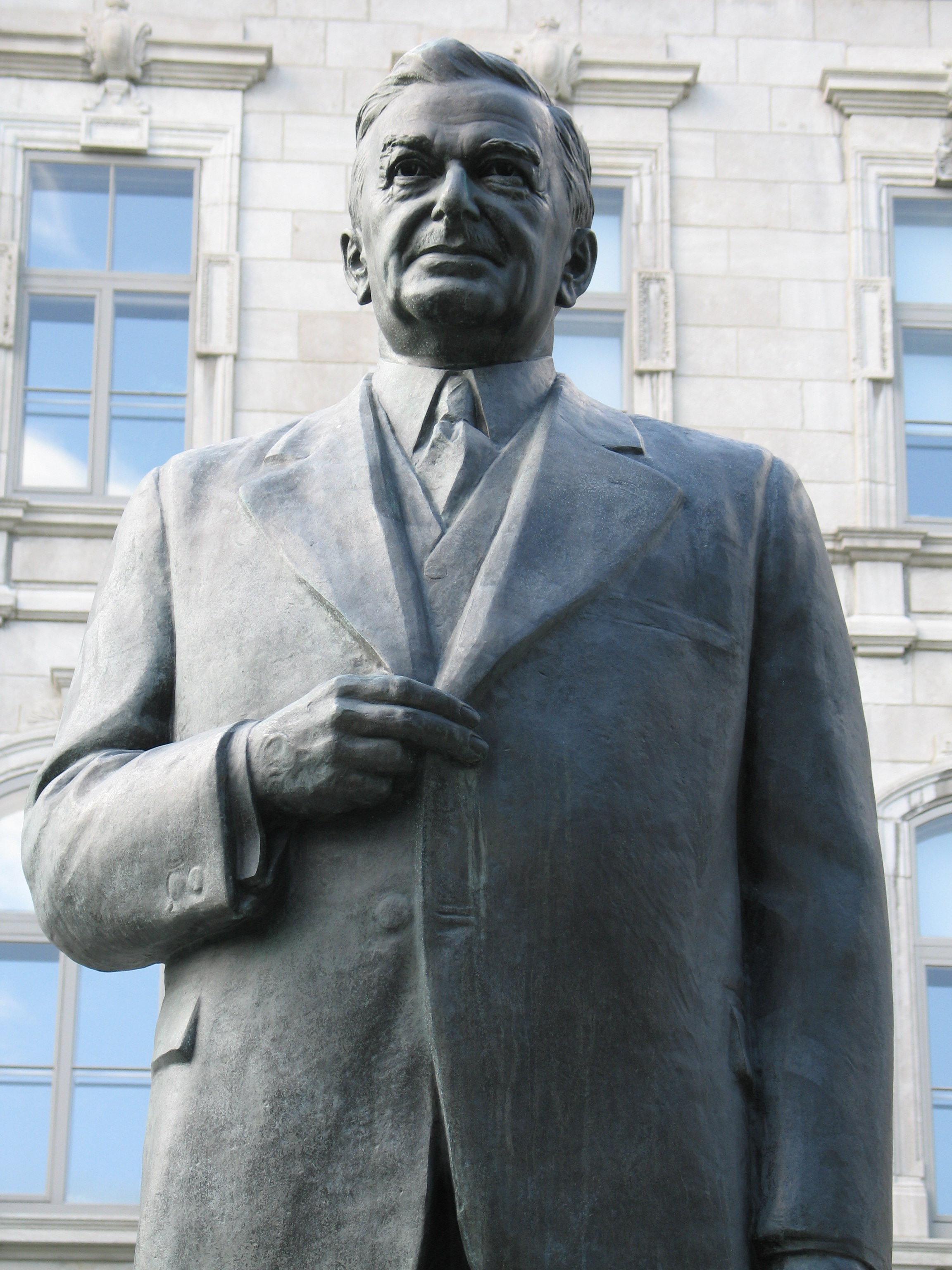 Statue of Maurice Duplessis (1890-1959) in front of the National Assembly in Quebec City.